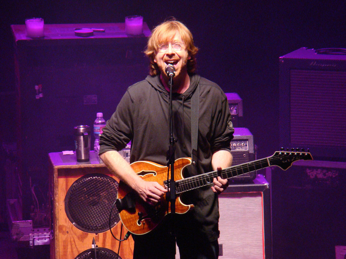 Phish at Red Rocks Amphitheater in Morrison, Colorado July 30, 2009 Stash - Trey Anastasio